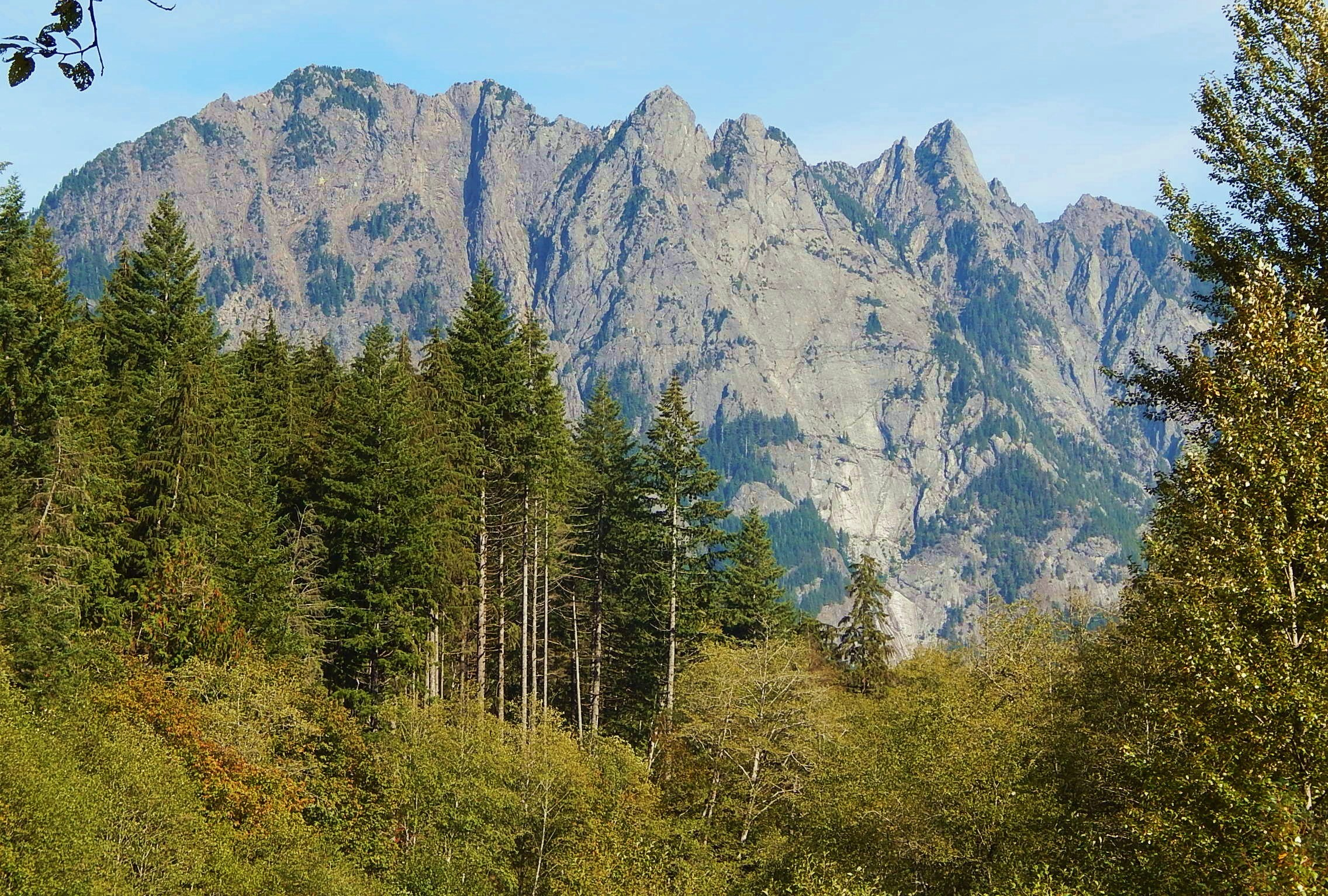 Garfield Mountain aka Mount Garfield seen from Middle Fork Snoqualmie River Road